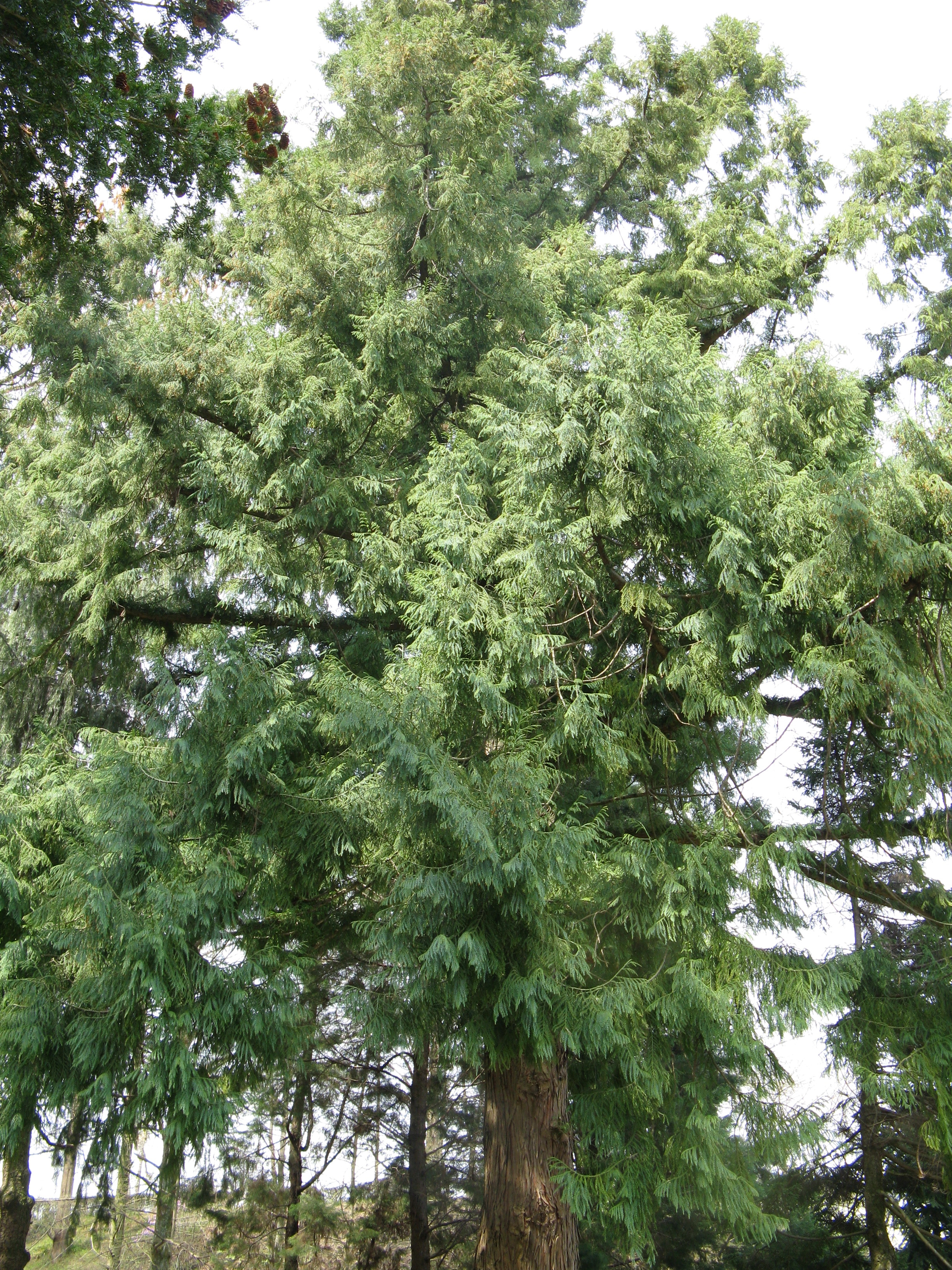 Taiwania cryptomerioides